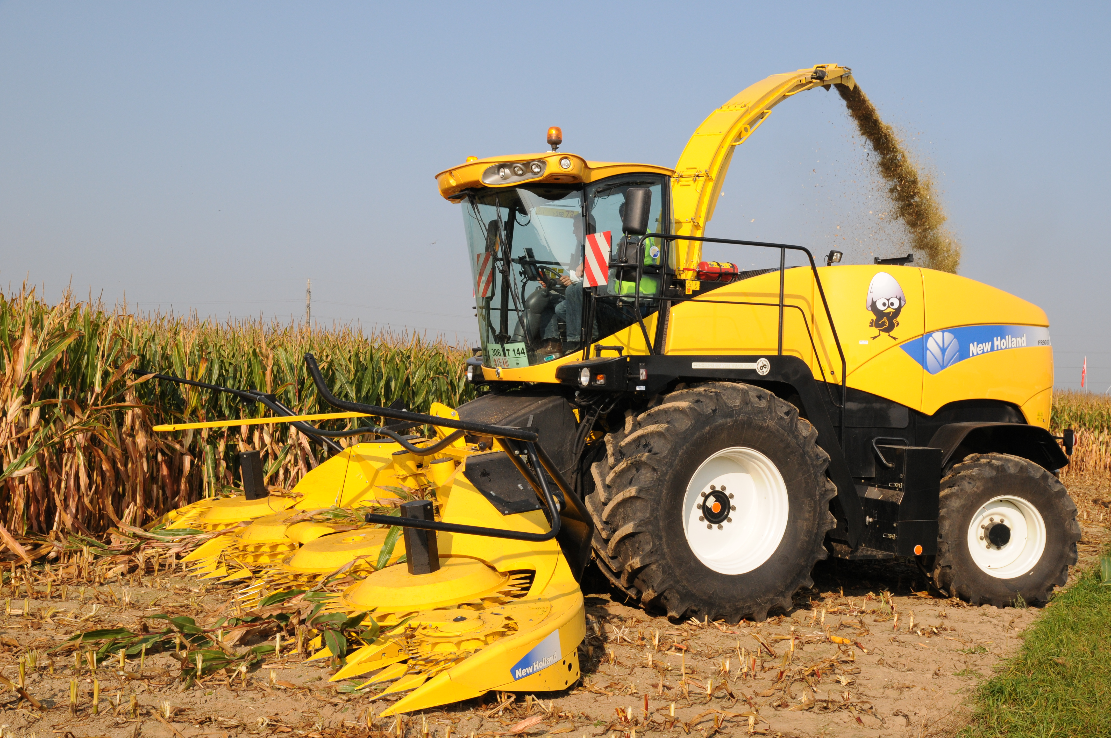 New Holland FR 9050 forage harvester